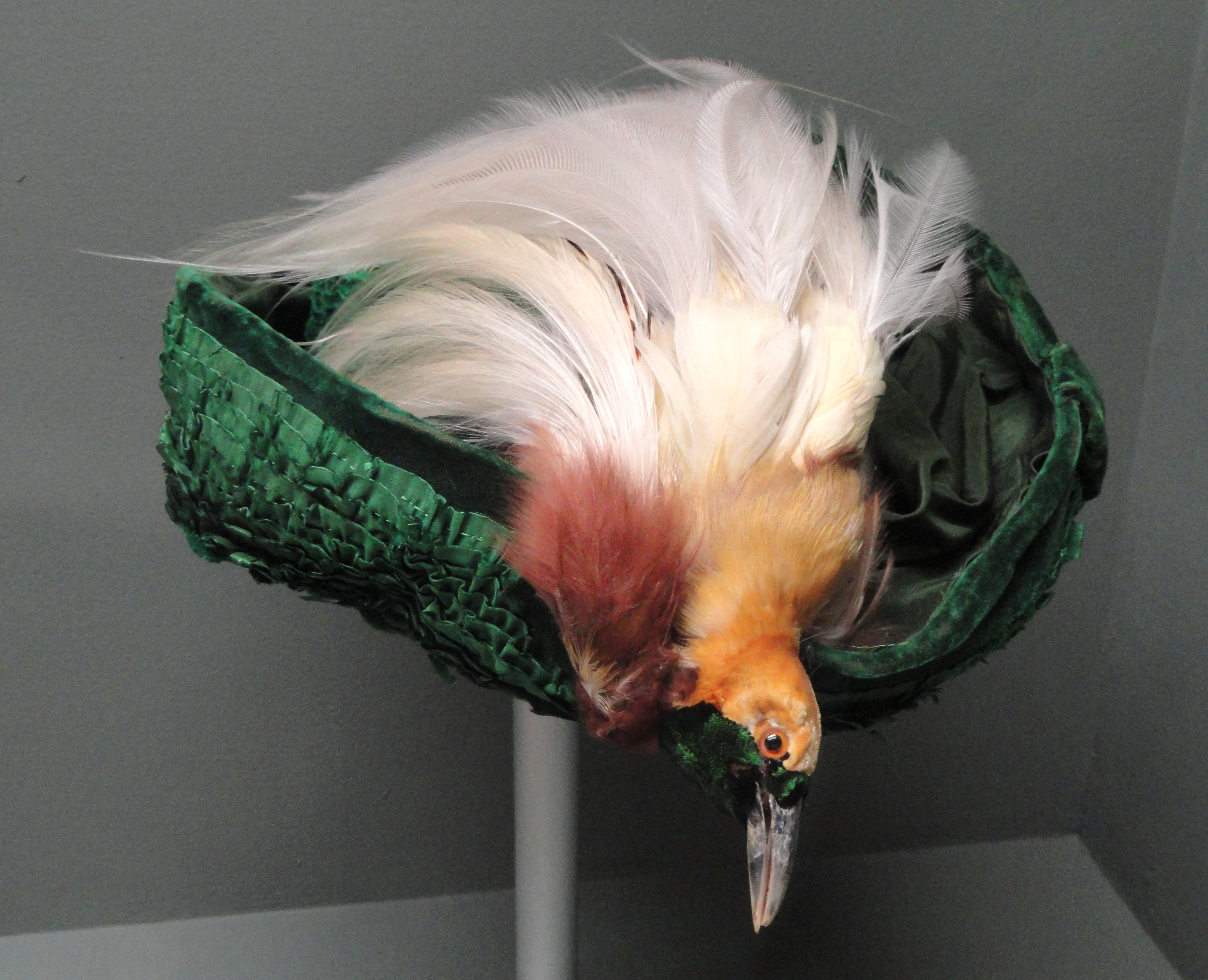 Exhibit in the Pacific Grove Museum of Natural History, Pacific Grove, California, USA. Photography was permitted without restriction in the museum.